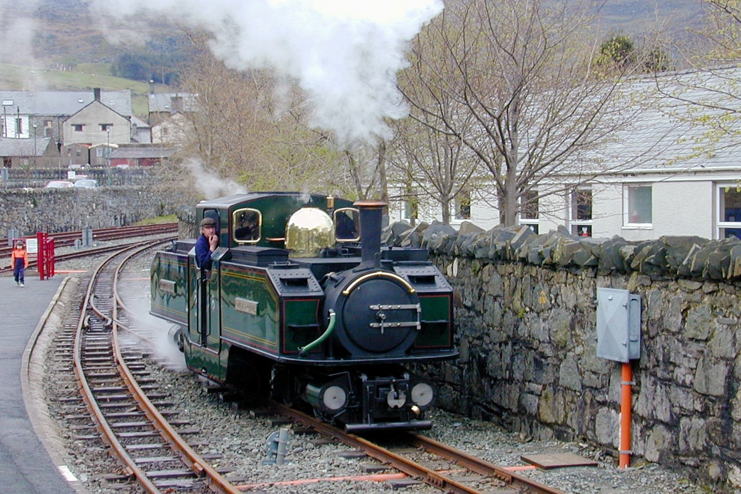 The Ffestiniog Railway double Fairlie steam engine "Earl of Merioneth" at Blaenau Ffestiniog.